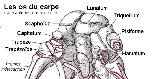 Carpus